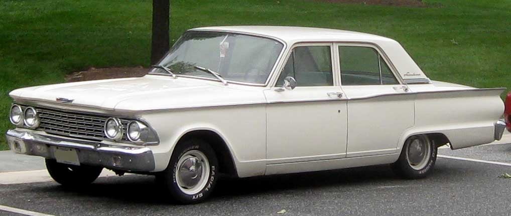 1962 Ford Fairlane Town Sedan photographed in College Park, Maryland, USA.